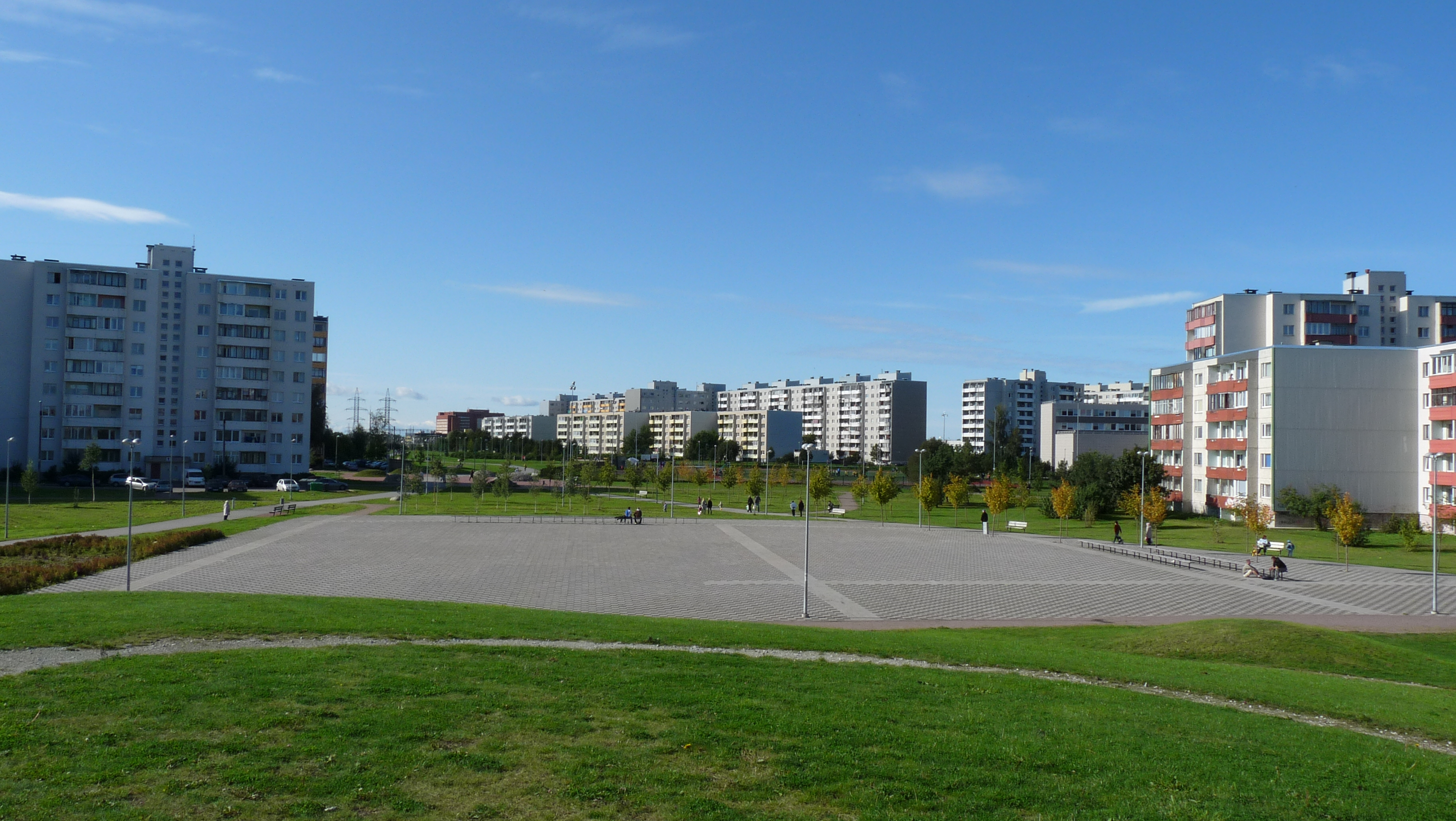 Seating area between Kuristiku and Mustakivi quarters.